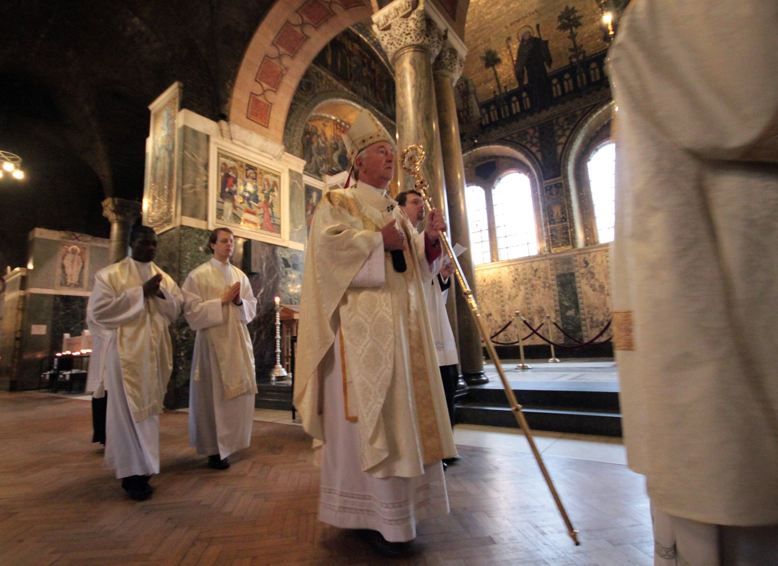 Archbishop Vincent Nichols in Westminster Cathedral